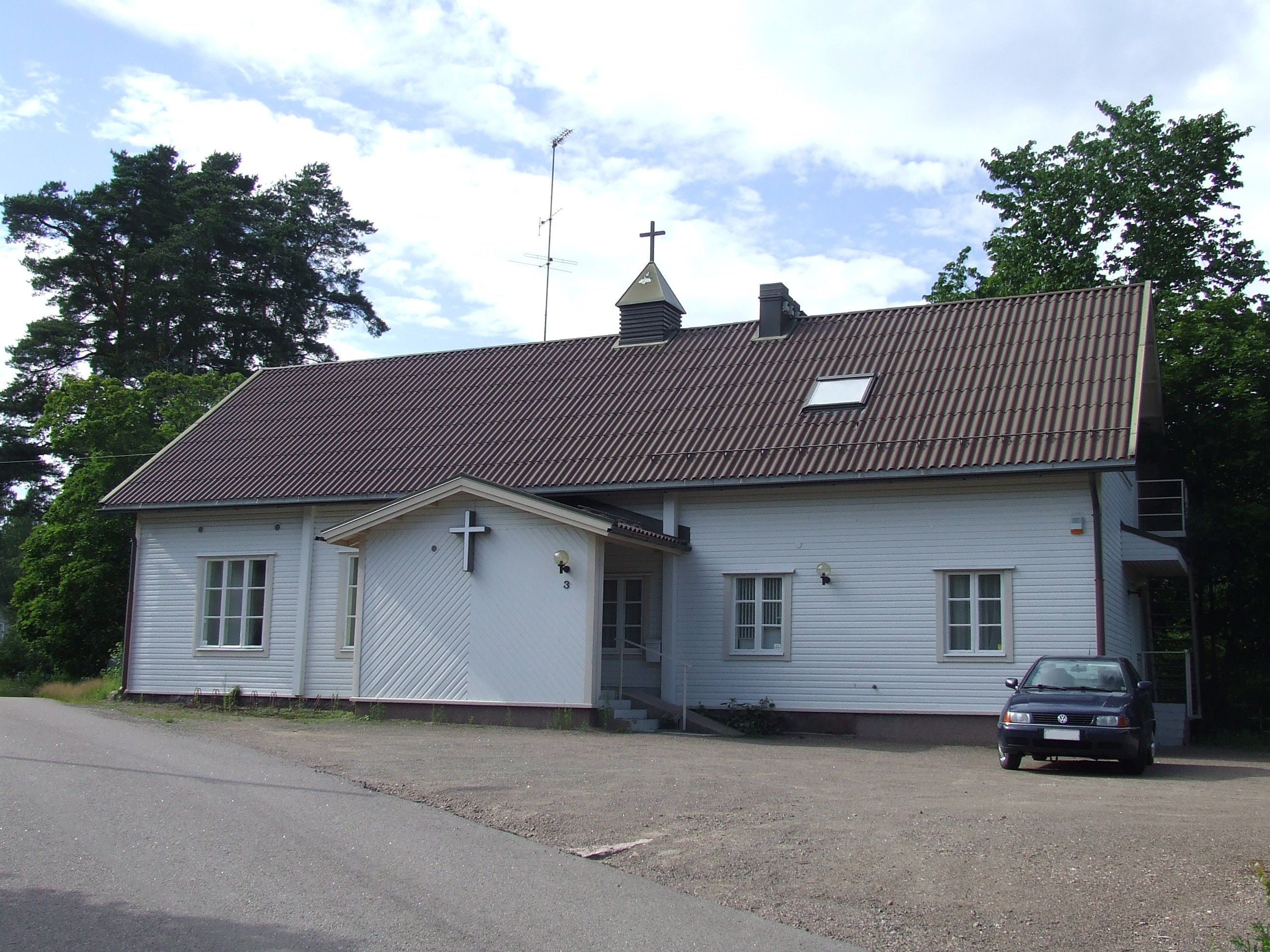 Ummeljoki Village Church in Kouvola, Finland.